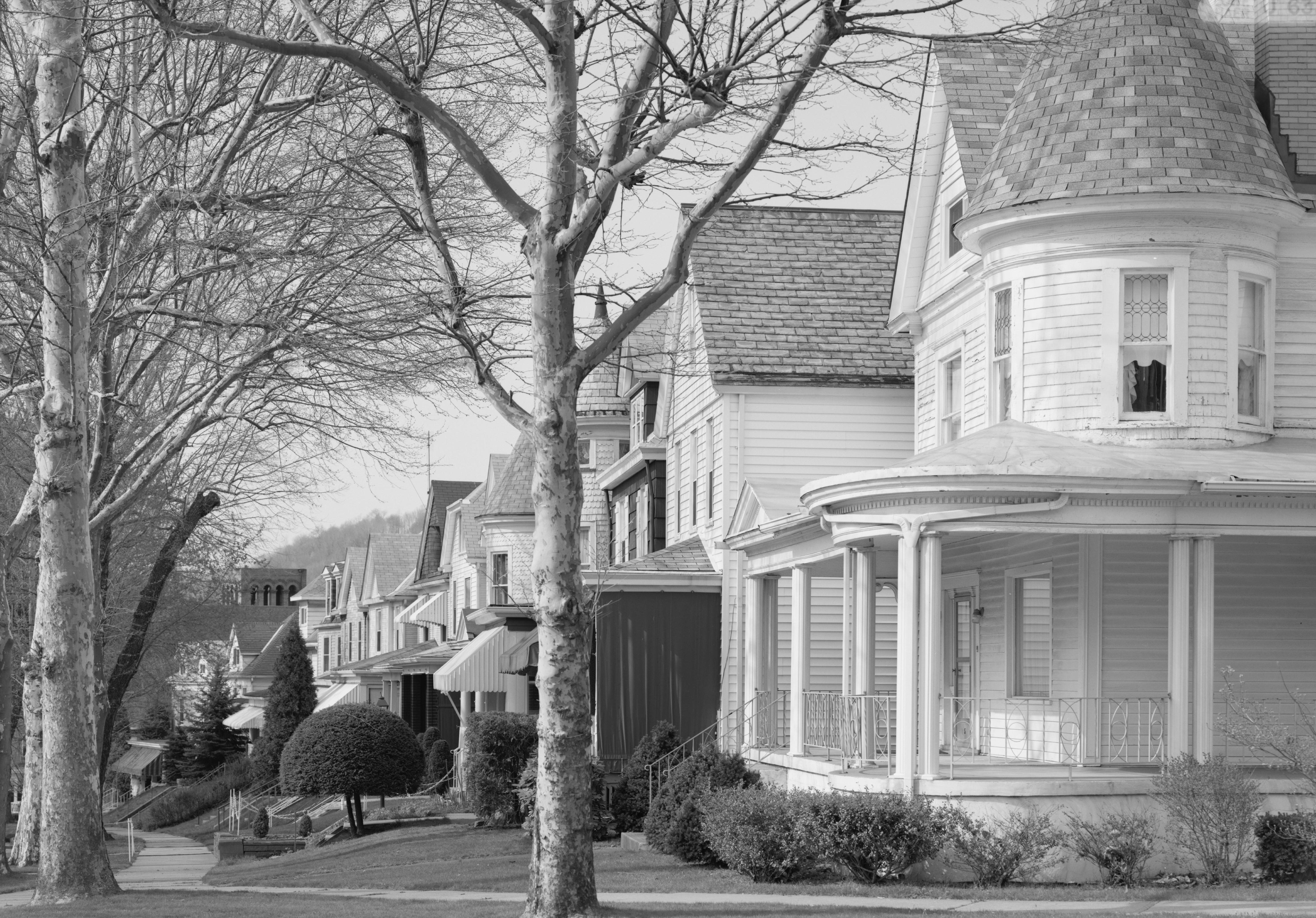 Houses along the eastern side of Washington Avenue north of its junction with Franklin Avenue in Vandergrift, Pennsylvania, United States. The houses in this block of Washington are part of the Vandergrift Historic District, a historic district that is listed on the National Register of Historic Places.